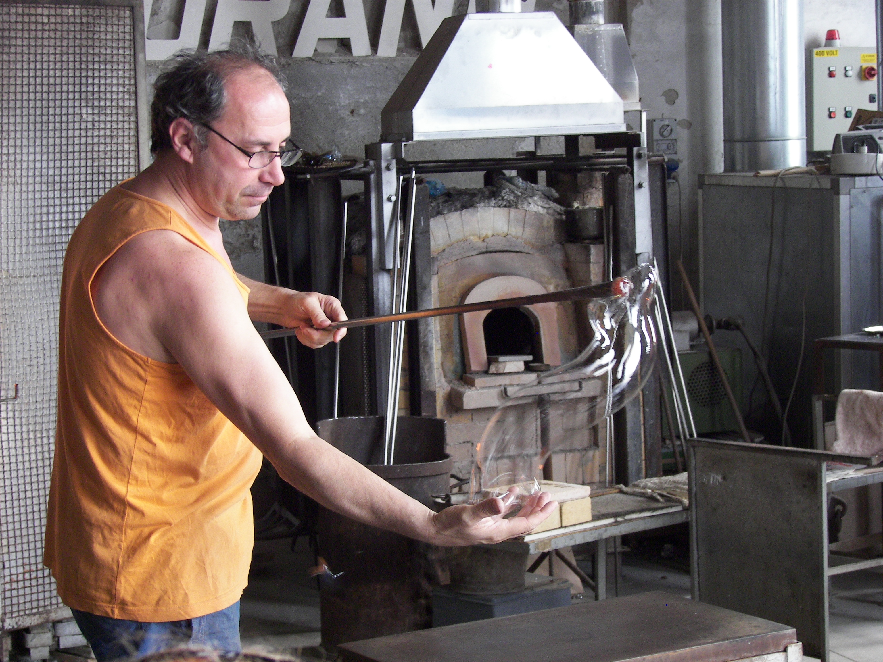 Glassblowing demonstration at a Murano glass factory in Venezia.